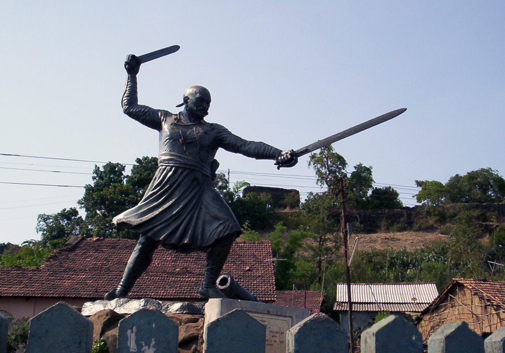 nilesh